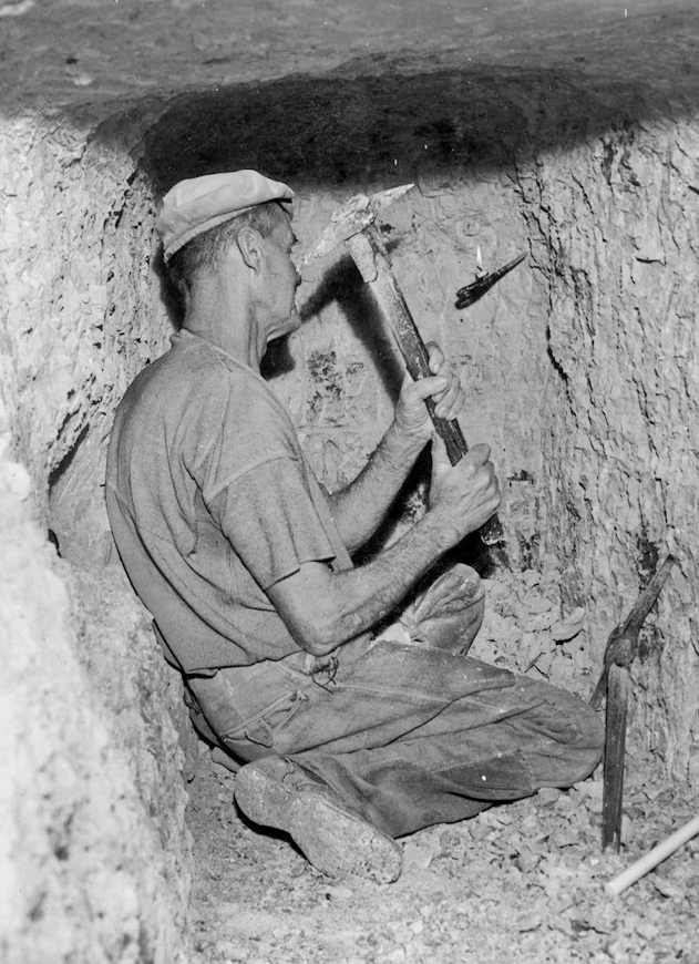 Brindle, Bill Inscription: "L15738".; Title devised by cataloguer based on accompanying information.; Using candlelight to detect flash of the precious stone. Notes on back of photo.; Also available in an electronic version via the internet at: .au/nla.pic-vn4588602. Persistent URL .au/nla.pic-vn4588602